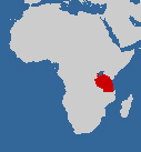 Masked lovebird distribution